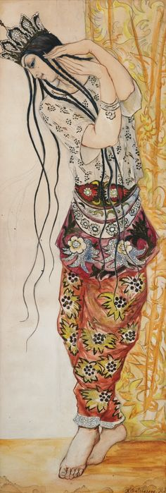 Costume design by Natalia Goncharova for Tamara Karsavina as the queen of Shemakhan in the 1914 Ballets Russes ballet "Le Coq d'Or".